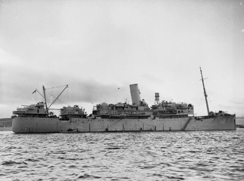 HMS Cheshire At anchor.